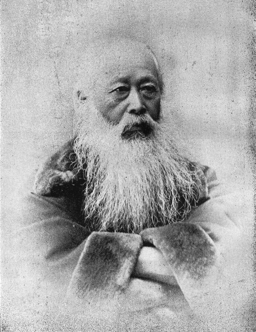 Kaieda Nobuyoshi, Privy Councillor